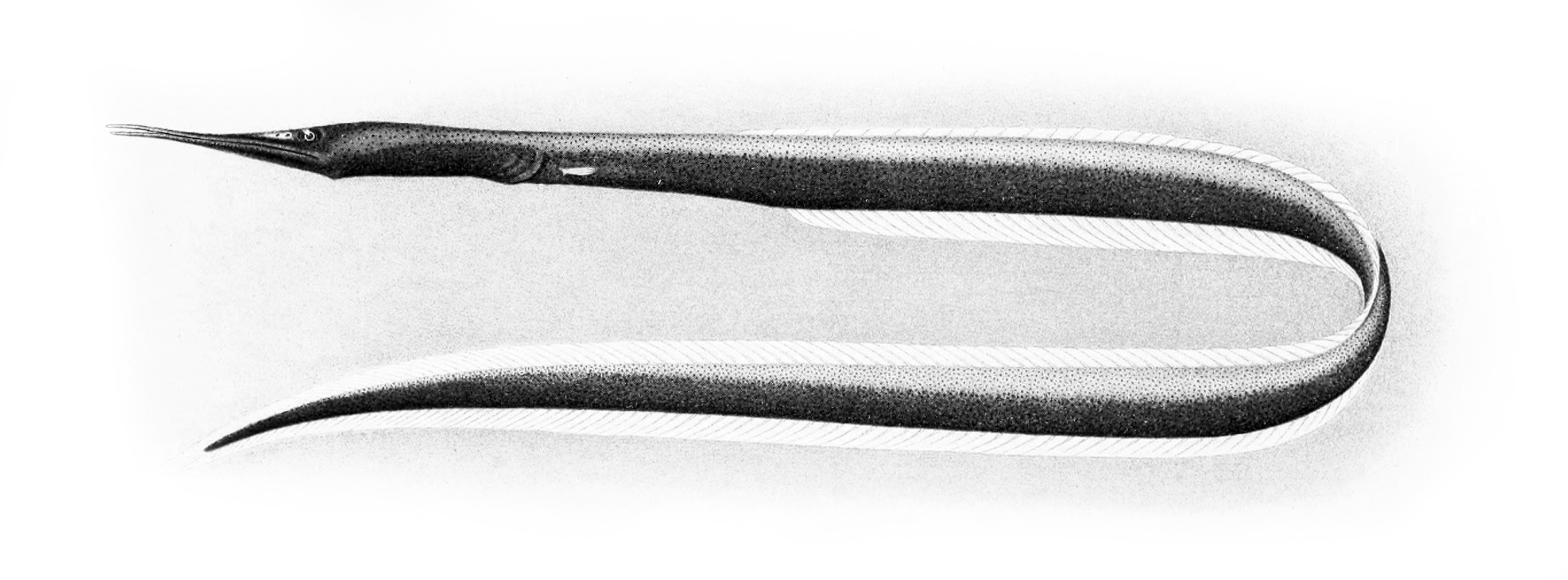 Stemonidium hypomelas from plate 67 of The Aquatic Resources of the Hawaiian Islands (1905).